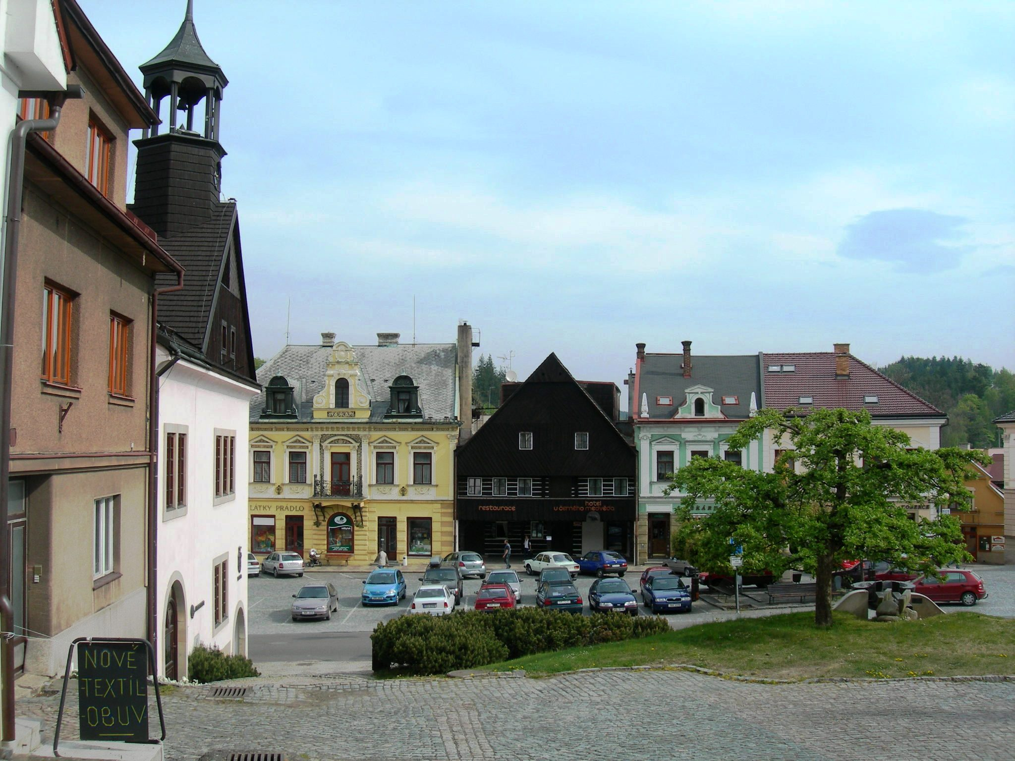 Jablonne nad Orlici, market and town hall (left)